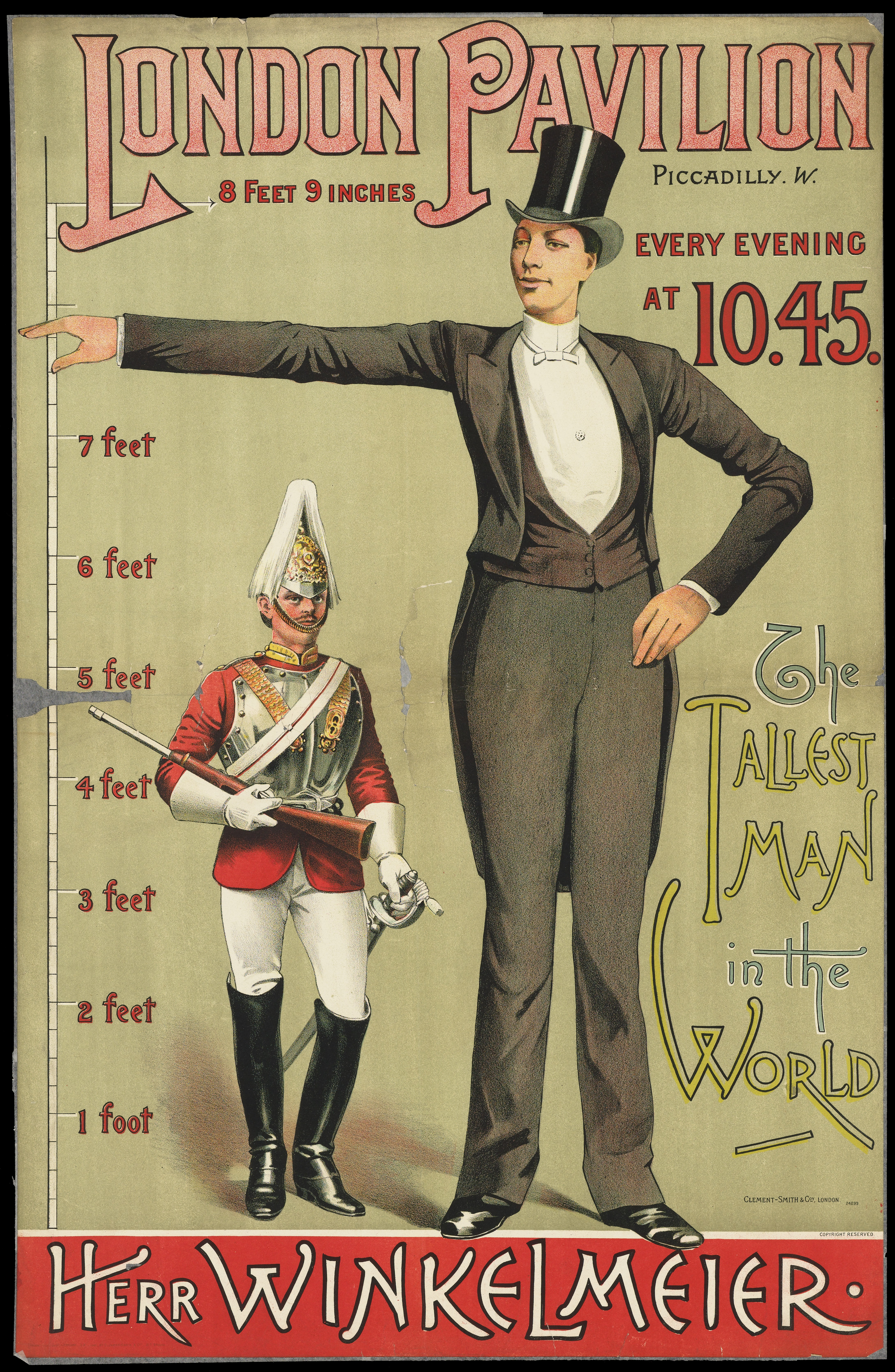 Poster: London Pavilion, Piccadilly, W. : every evening at 10.45 : the tallest man in the world : Herr Winkelmeier. General Collections Keywords: Freak Show; Giant